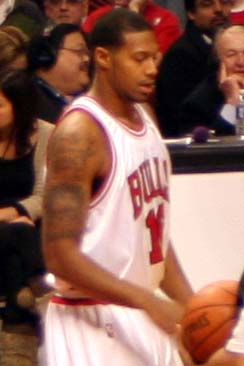 James Johnson (basketball) of the Chicago Bulls in 2009